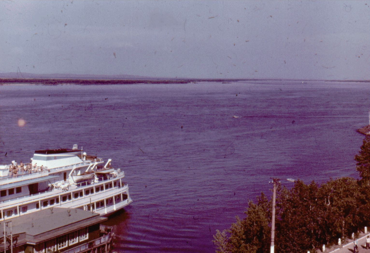 Amursk (stern part of 30 let GDR, 1985)